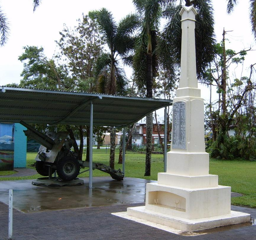 War Memorial, Babinda, Queensland, Australia I took this picture in June 2006. Peter Ellis 21:25, 18 August 2006 (UTC)